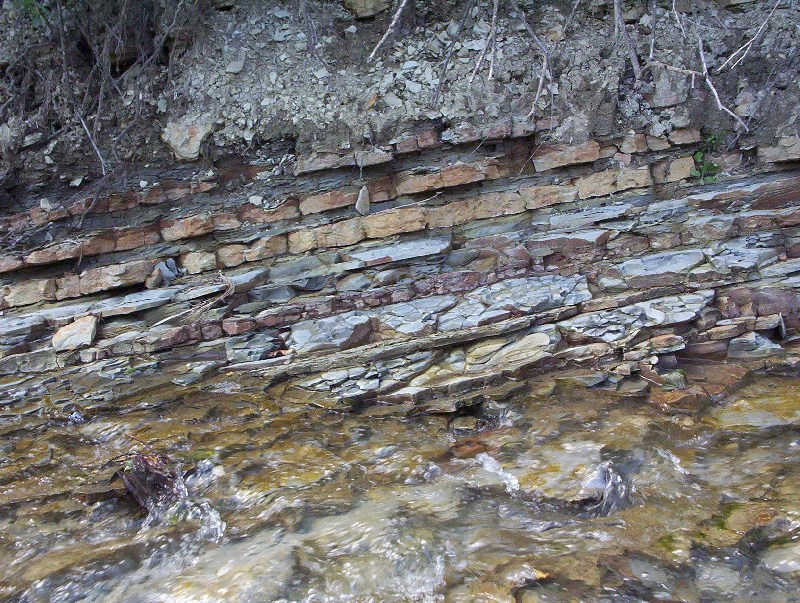 Carpathian flysch near Komańcza, Beskid Niski, Poland.